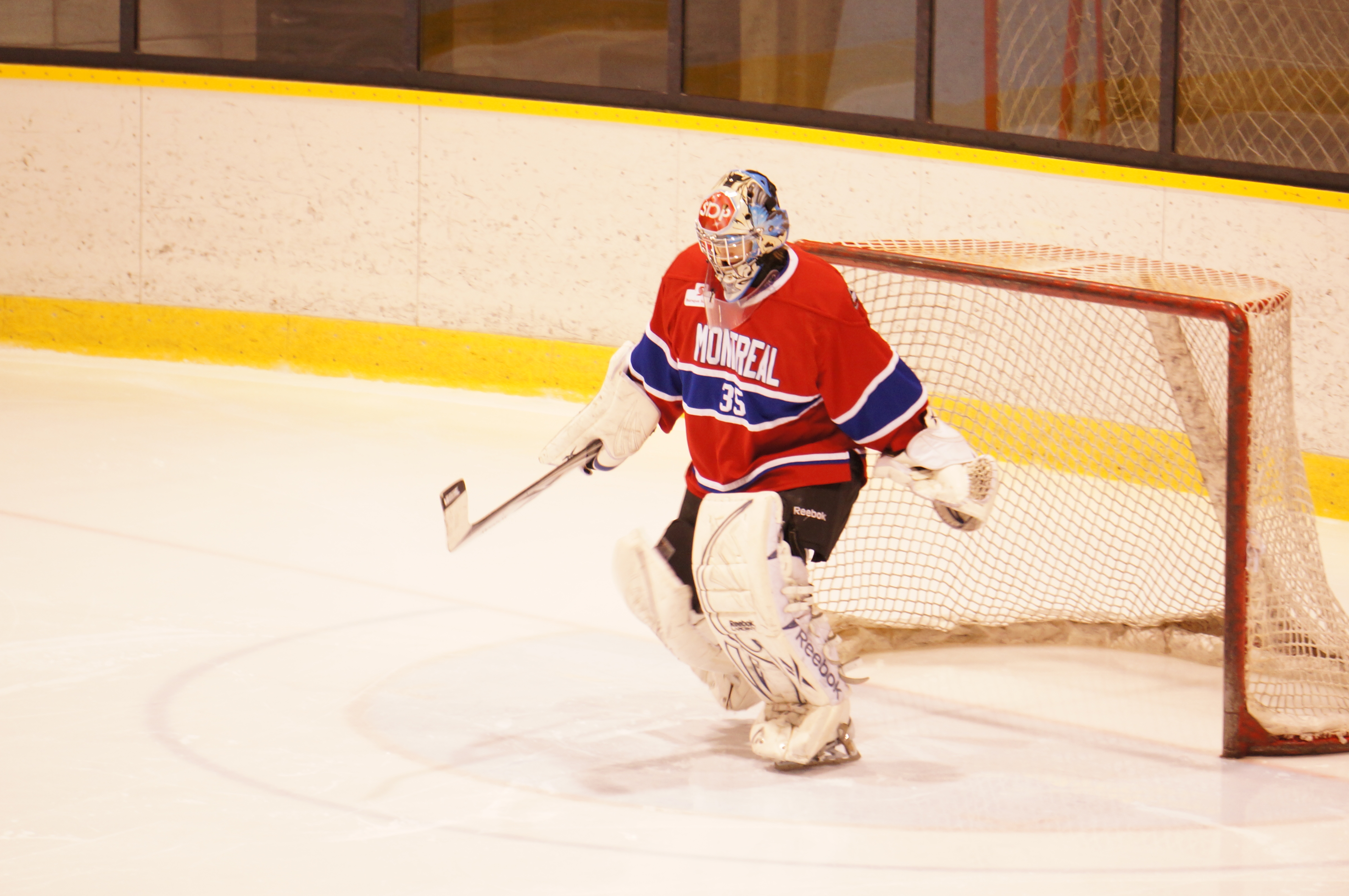 Jenny Lavigne (born February 2, 1985, in Lac-au-Saumon, Quebec) is an Canadian goaltender and member of Montreal Stars in the Canadian Women's Hockey League (CWHL).